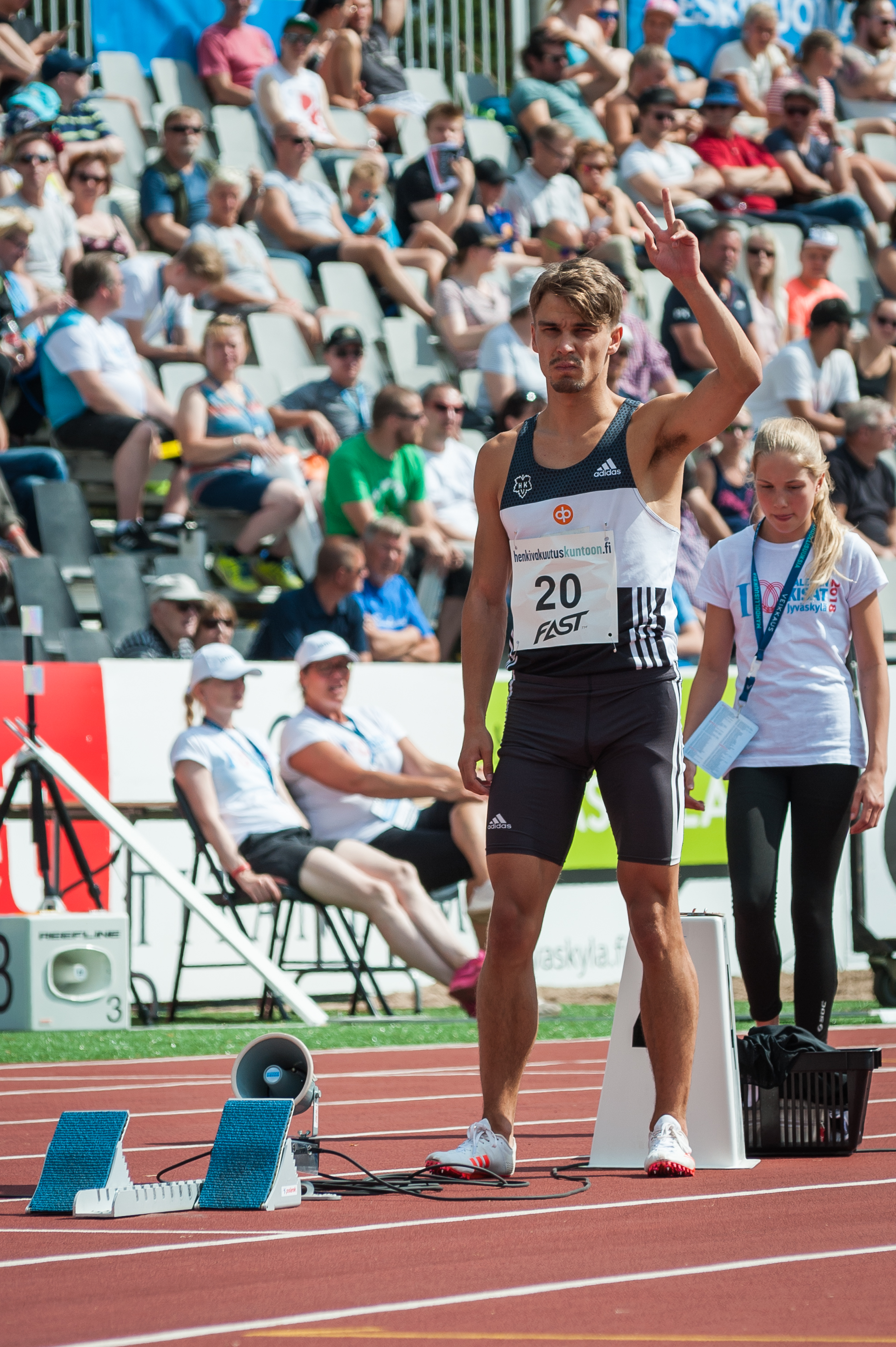 Men's 200 m competition at the 2018 Kalevan Kisat, the Finnish championships in athletics, in Jyväskylä, Finland.